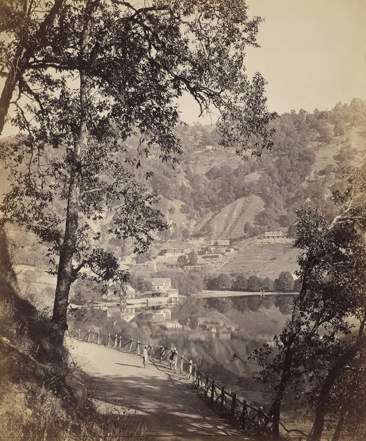 View of Mallital, Nainital, 1865. Details - The bathing shed and Assembly Rooms on the water's edge, the Albion Hotel is the right-hand building on the terrace above the lake.